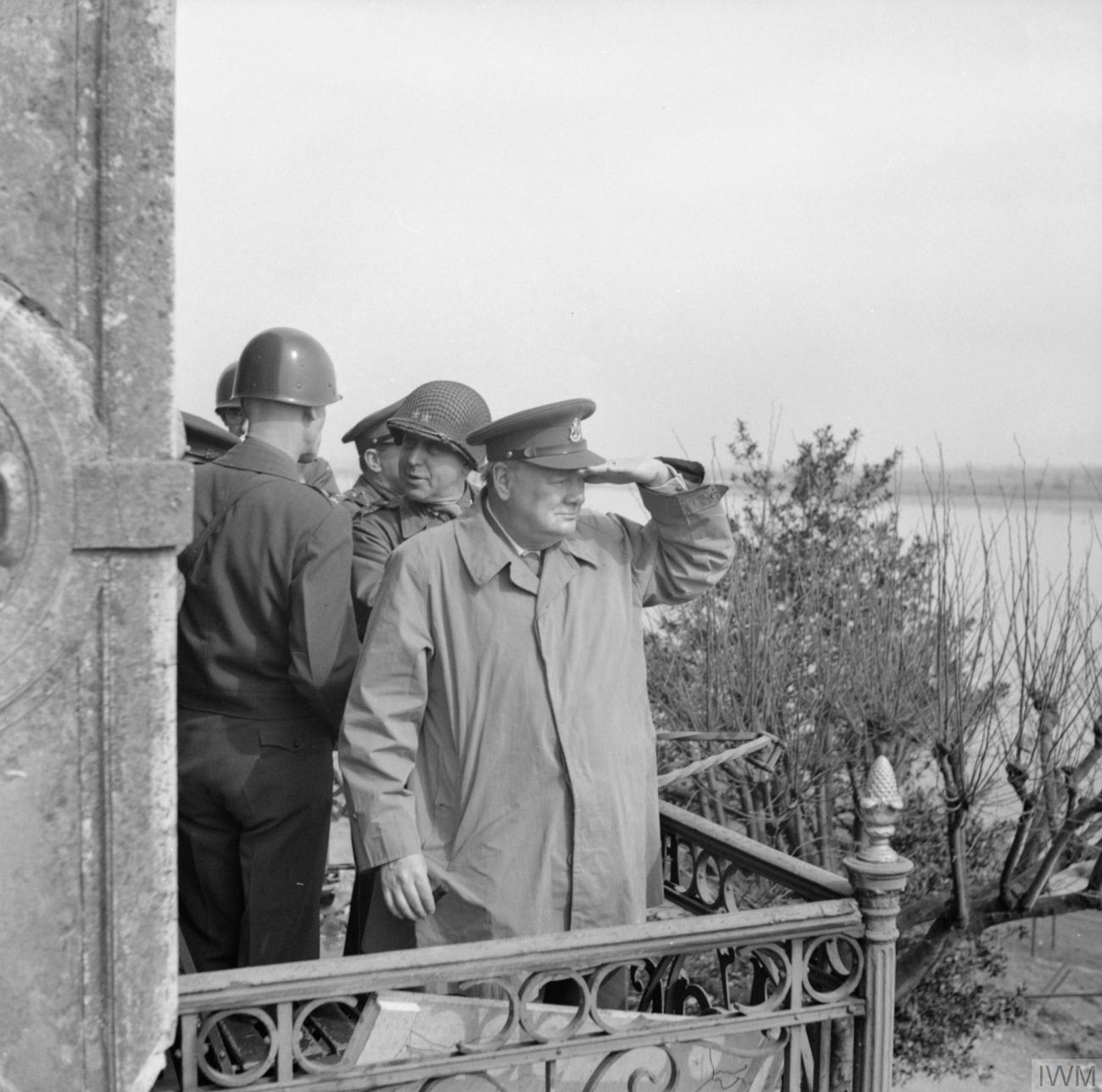 Winston Churchill with American generals on a balcony watching Allied vehicles crossing the Rhine.